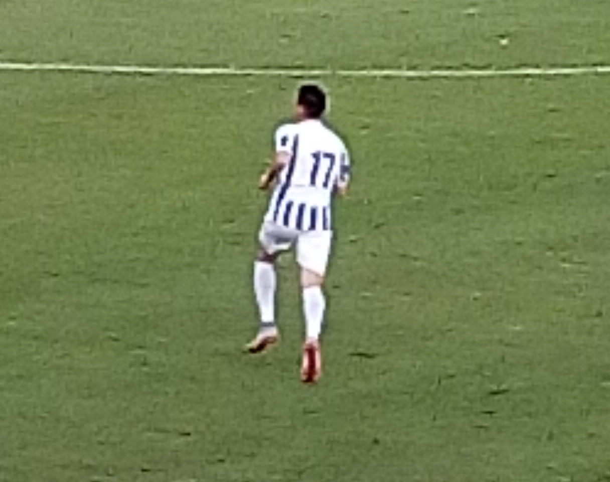 Gjergji MuzakaShqip: Gjergji Muzaka